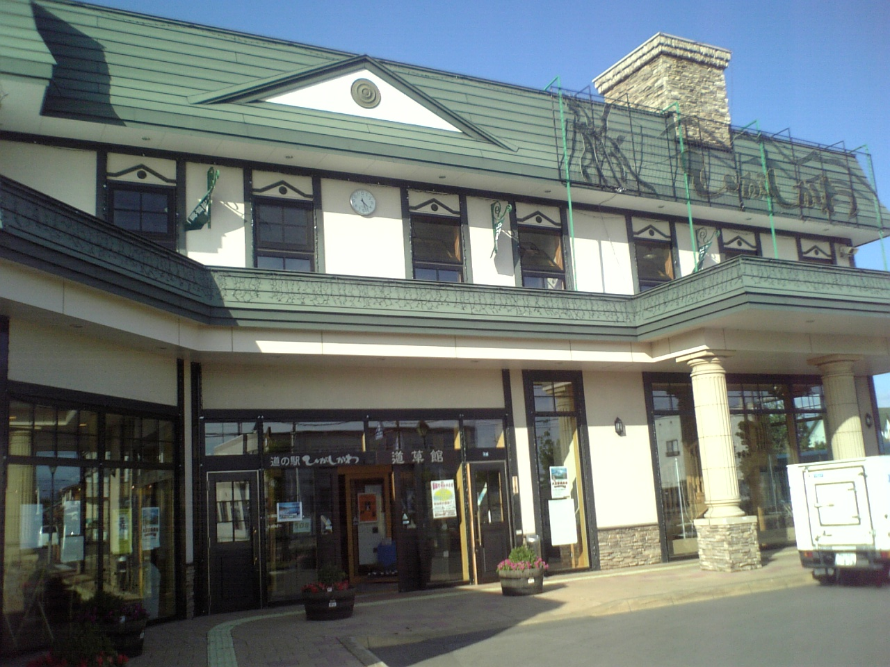 Michinoeki(Roadside Station) Higashikawa Michikusa-kan (Higashikawa, Hokkaidō)